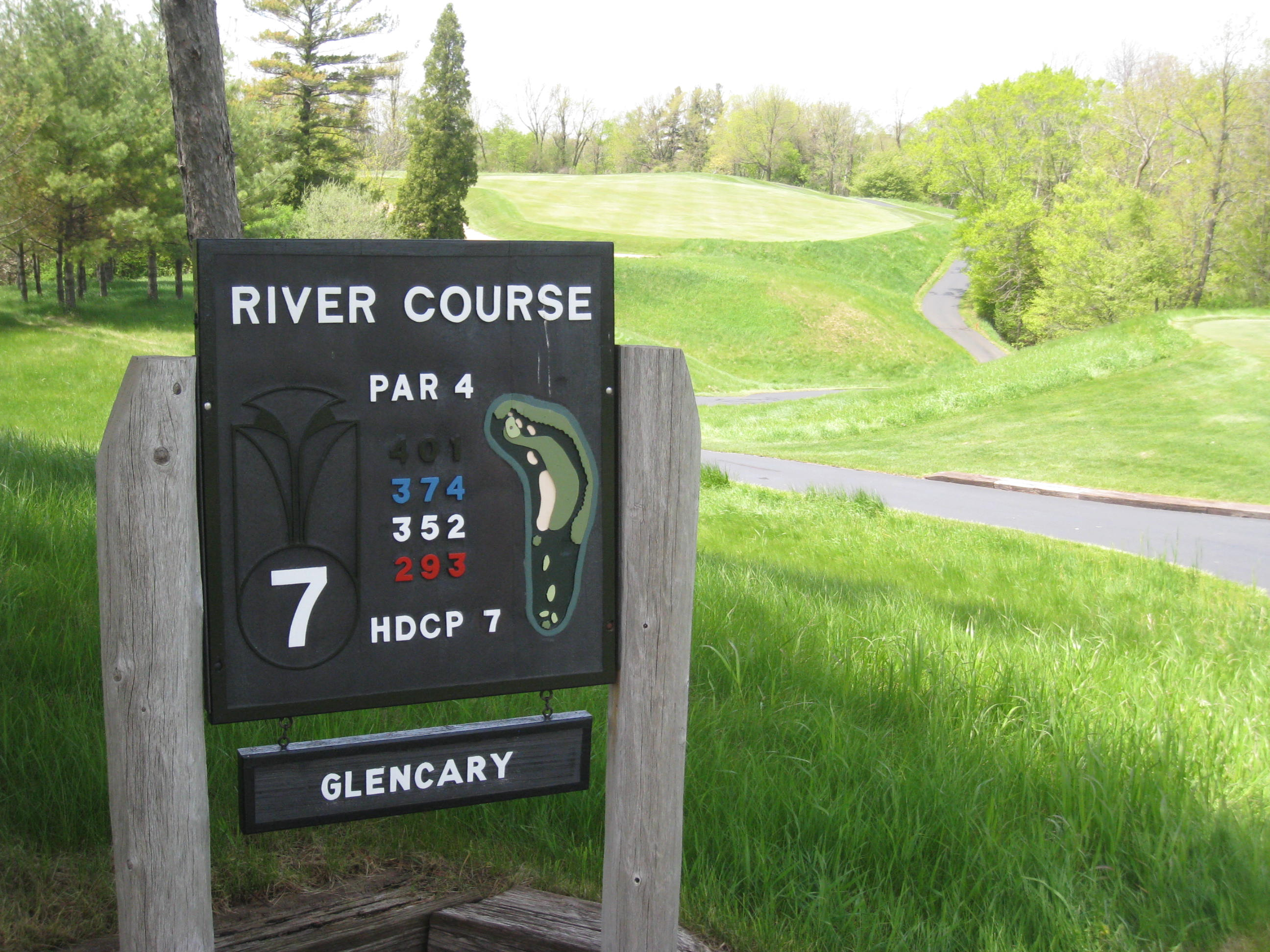 Picture of the 7th tee sign at The River Course, Blackwolf Run, Kohler, Wisconsin.